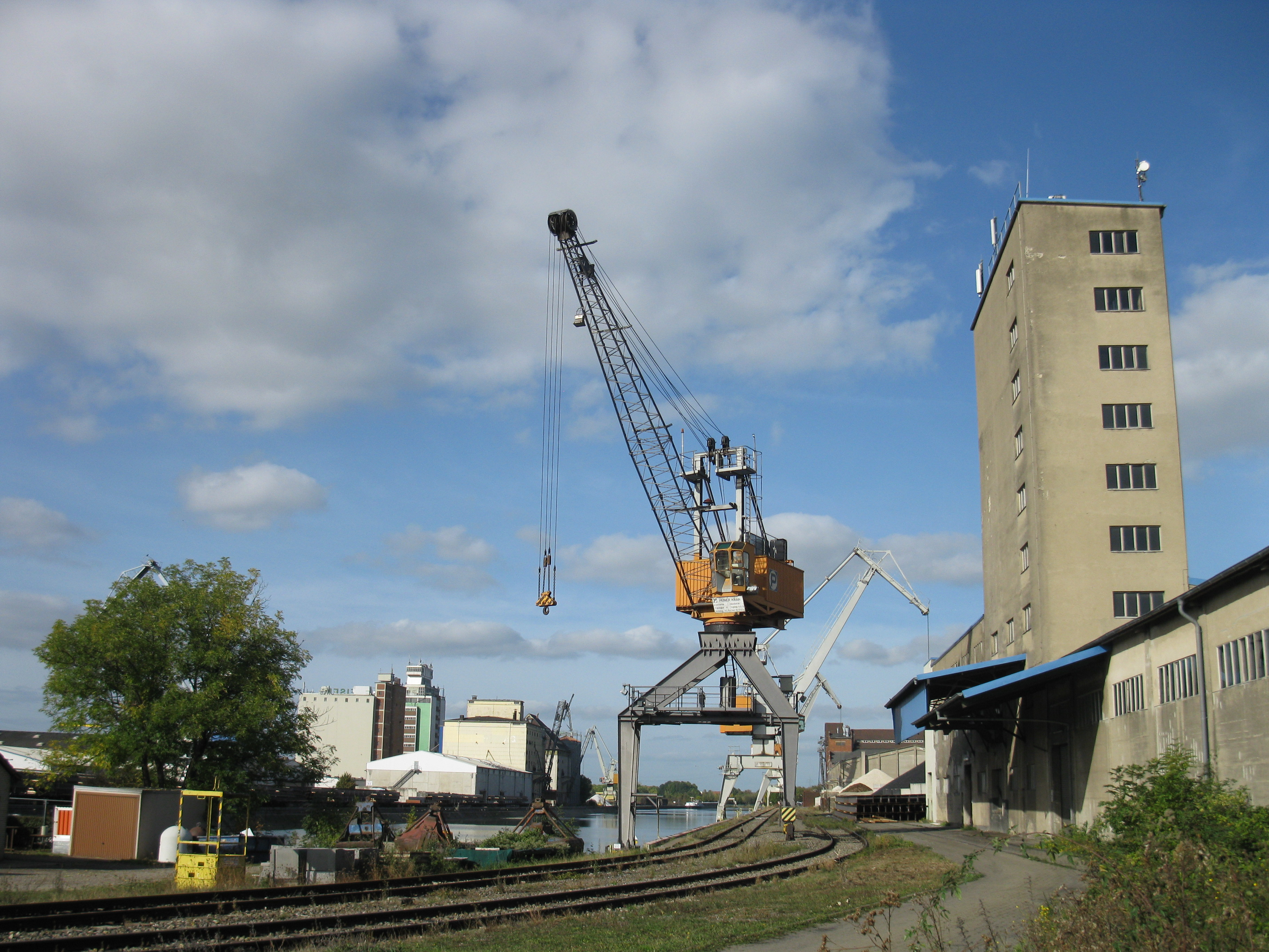 Inland harbour, Steuerwald, Hildesheim